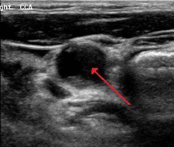 70 percent blockage of the right internal carotid as seen on US. Arrow marks plaque inside the artery.